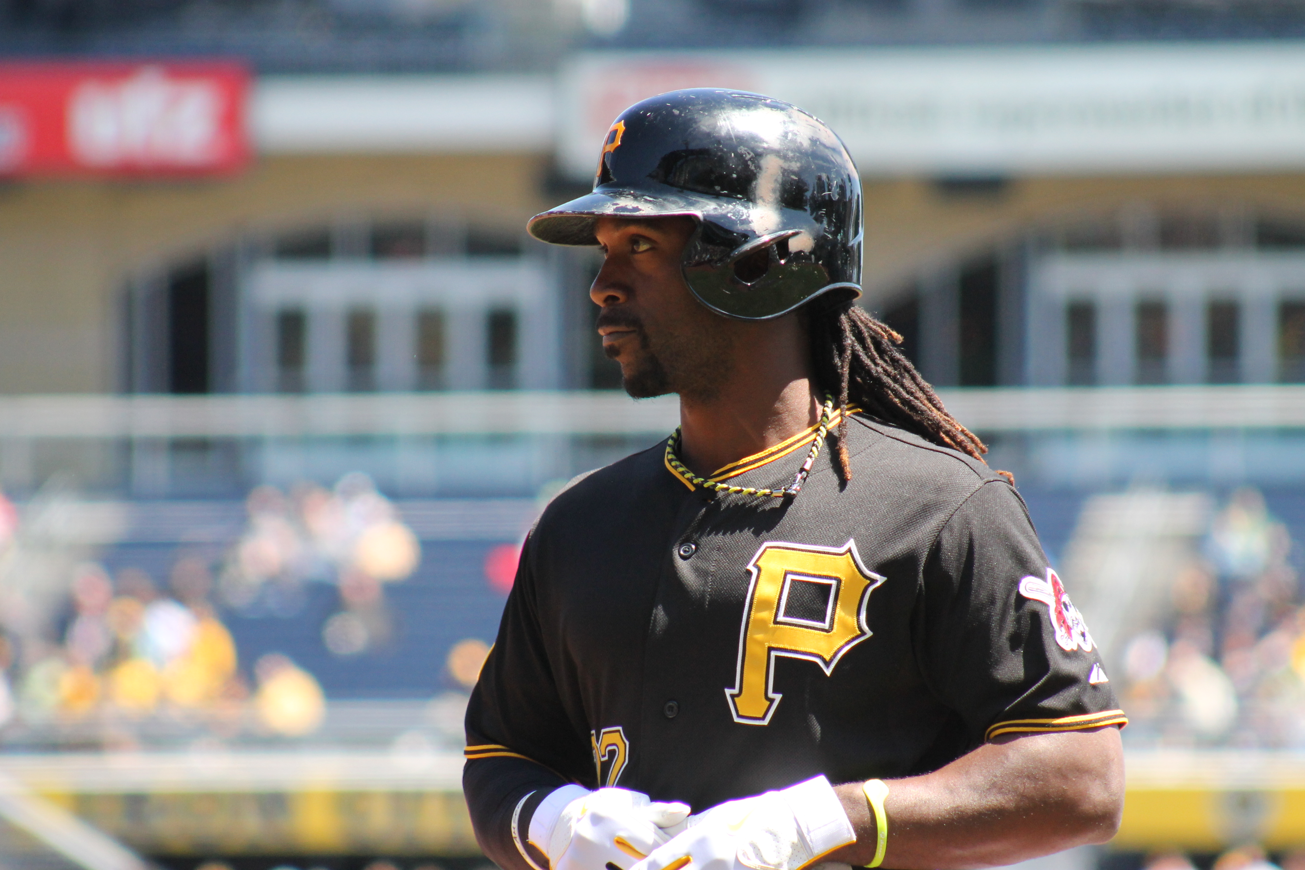 Andrew McCutchen of the Pittsburgh Pirates.